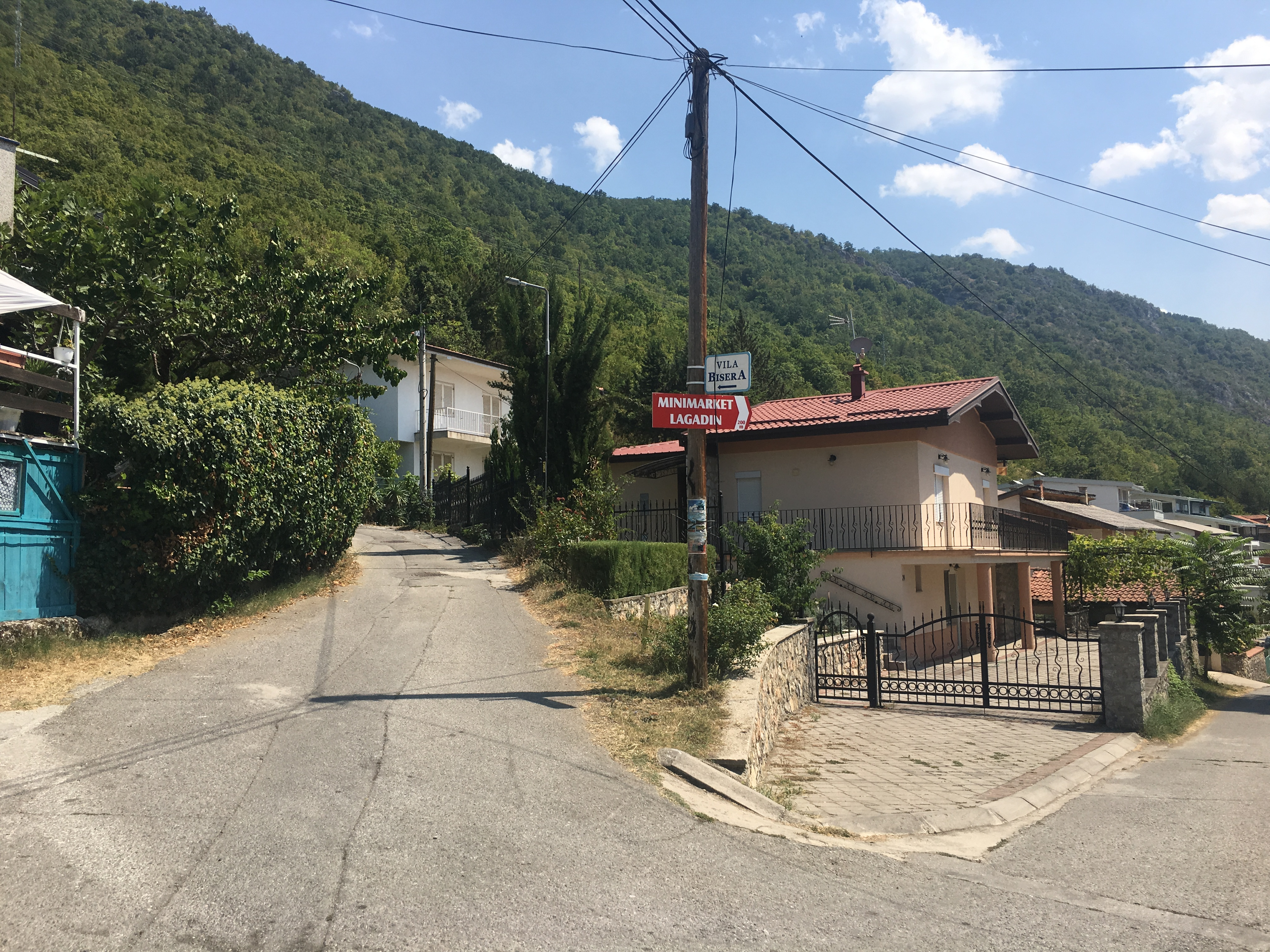 Streets through the village of Lagadin